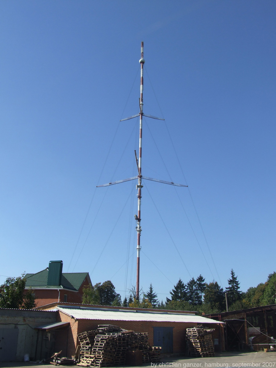 TV-tower of Vinnytsya (Ukraine), located in the north-western part of the city, in a forest-park.